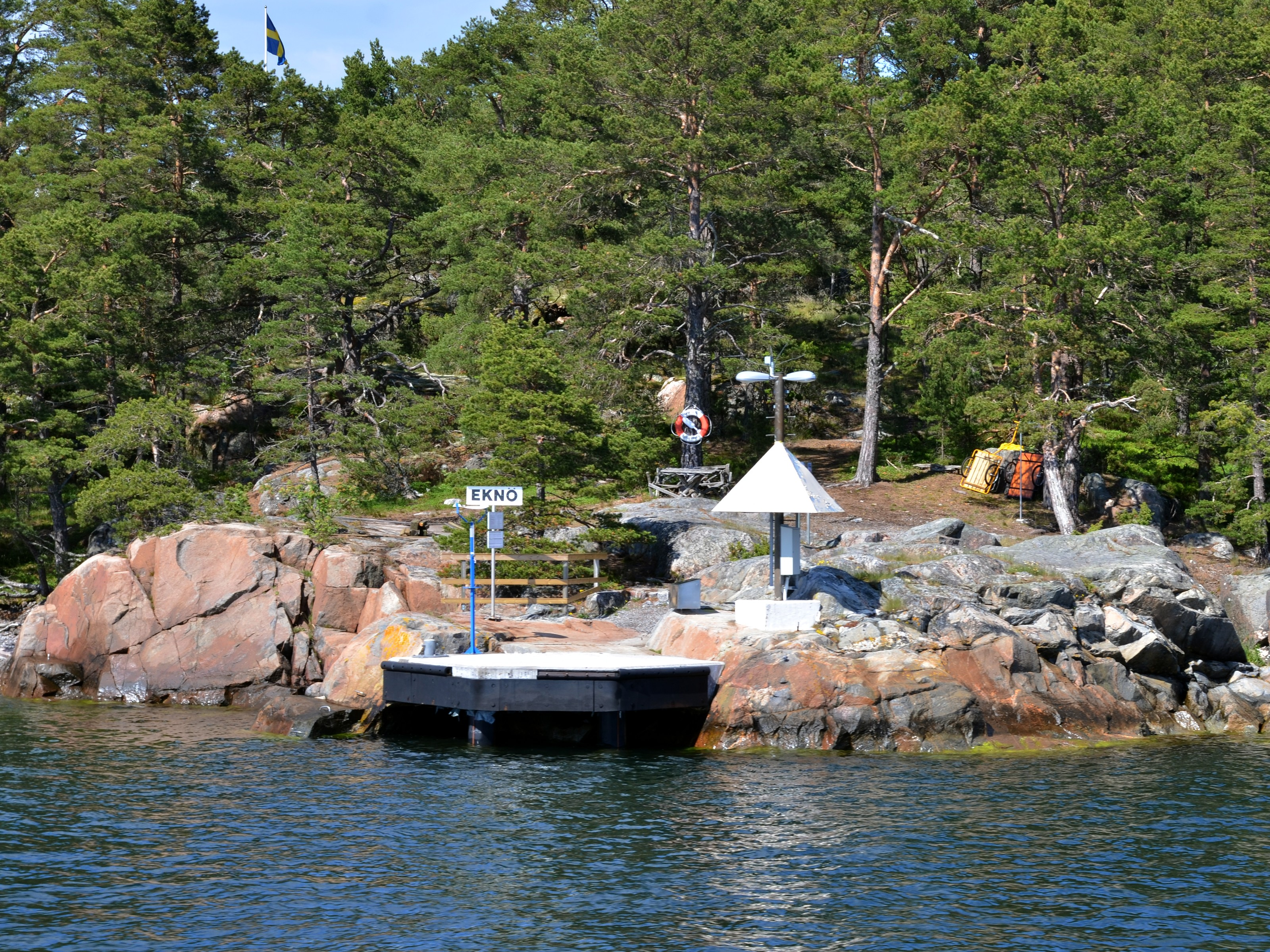 Jetty and daymark at Eknö, Stockholm archipelago.